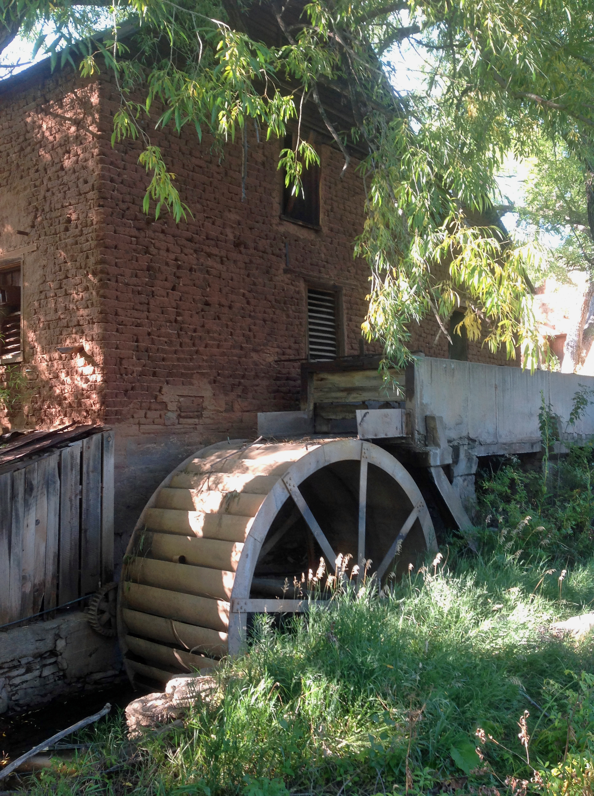 La Cueva Historic District, 6 miles southeast of Mora at the junction of State Roads 3 and 21 Mora